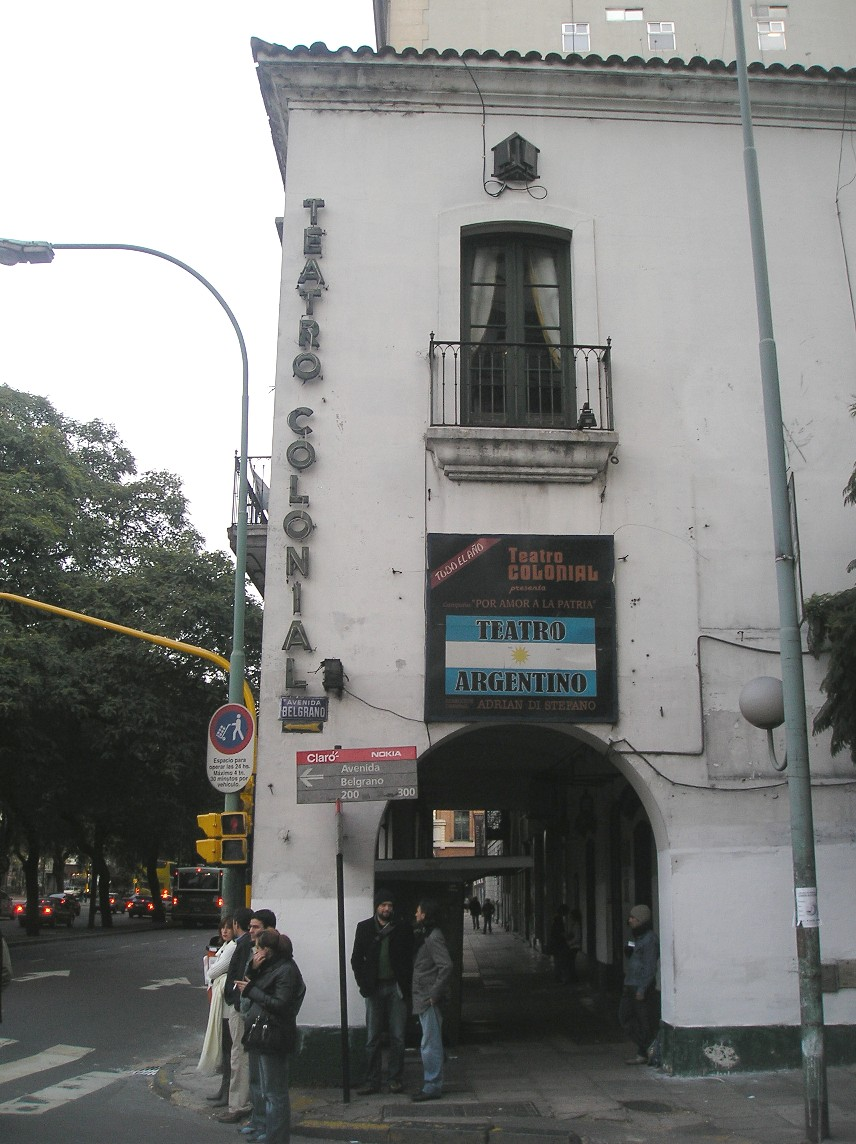 Colonial Theatre (Teatro Colonial). Corner of Belgrano and Paseo Colón avenues, Buenos Aires.